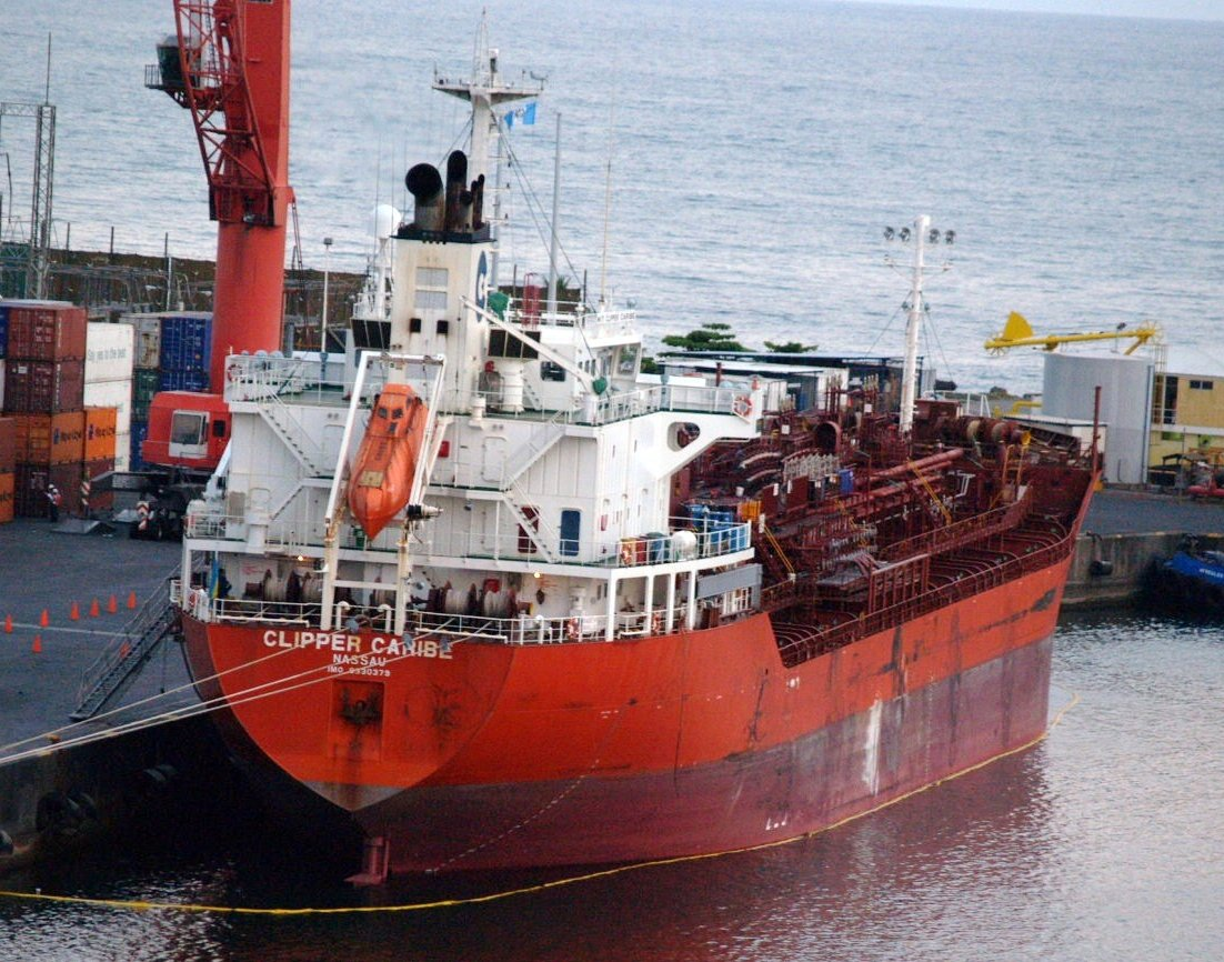 IMO number : 9330379 Name of ship : CLIPPER CARIBE Call Sign : C6US5 Gross tonnage : 8254 Type of ship : Chemical/Oil Products Tanker Year of build : 2005 Flag : Bahamas Status of ship : In Service